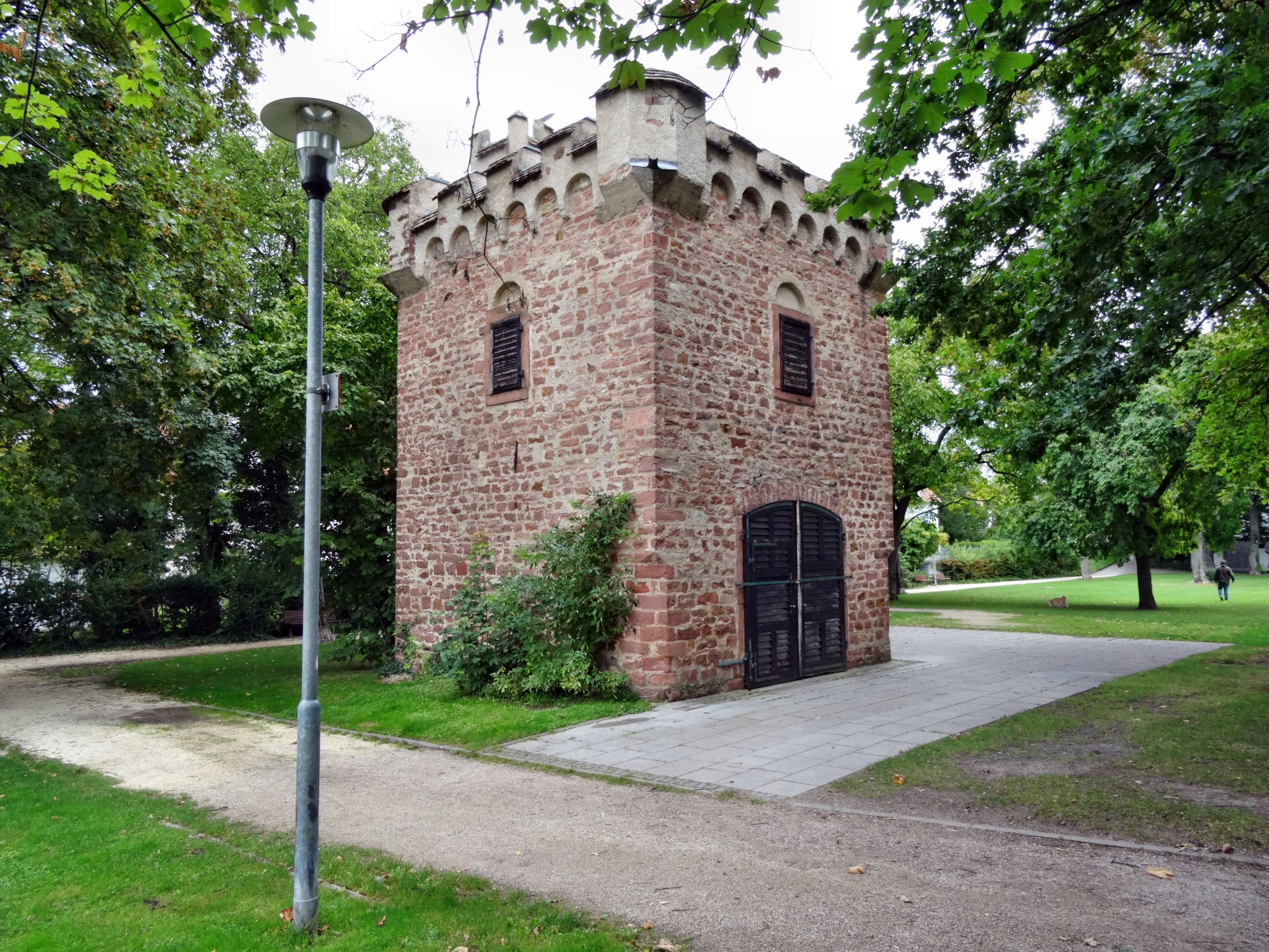 Dr.-Carl-Benz-Garage in Ladenburg, Germany, the first planned car garage in the world. Carl Benz, the inventor of the automobile, had a tower built for himself in 1910, on the ground floor car parking space on the 1st floor a room for studying.